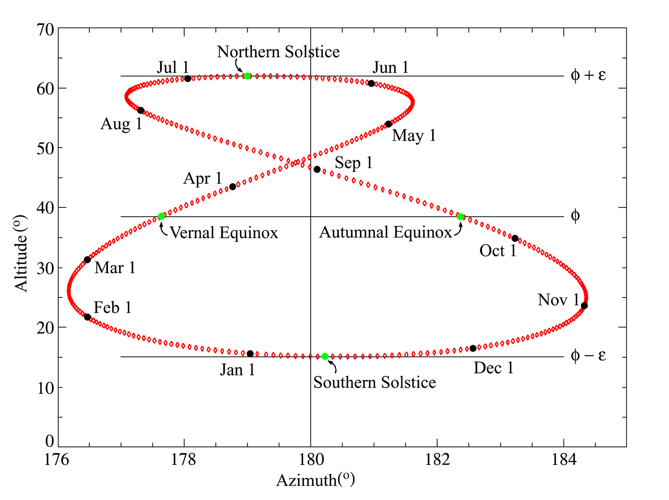 Analemma for planet Earth. This is a plot of the position of the sun at 12:00 noon at the Royal Observatory, Greenwich (latitude 51.4791° north, longitude 0°) during 2006. The horizontal axis is the azimuth angle in degrees (180° is facing south). The vertical axis is the altitude in degrees above the horizon. The first day of each month is shown in black, and the solstices and equinoxes are shown in green. It can be seen that the equinoxes occur at an altitude of = 90° ∼ 51.4791° = 38.5209°, and the solstices occur at ± ε where ε is the axial tilt of the Earth, 23.439°. This plot was constructed using altitude and azimuth data generated by JPL Horizons. This data is listed below. The analemma is plotted with width highly exaggerated, which permits noticing that it is very slightly asymmetrical (due to the two-week misalignment of the apsides of the Earth's orbit and its solstices). On November 3 the equation of time can be up to 16 min 23 sec fast; on February 12 it can be up to 14 min 20 sec slow. A similar plot can be found at [1]